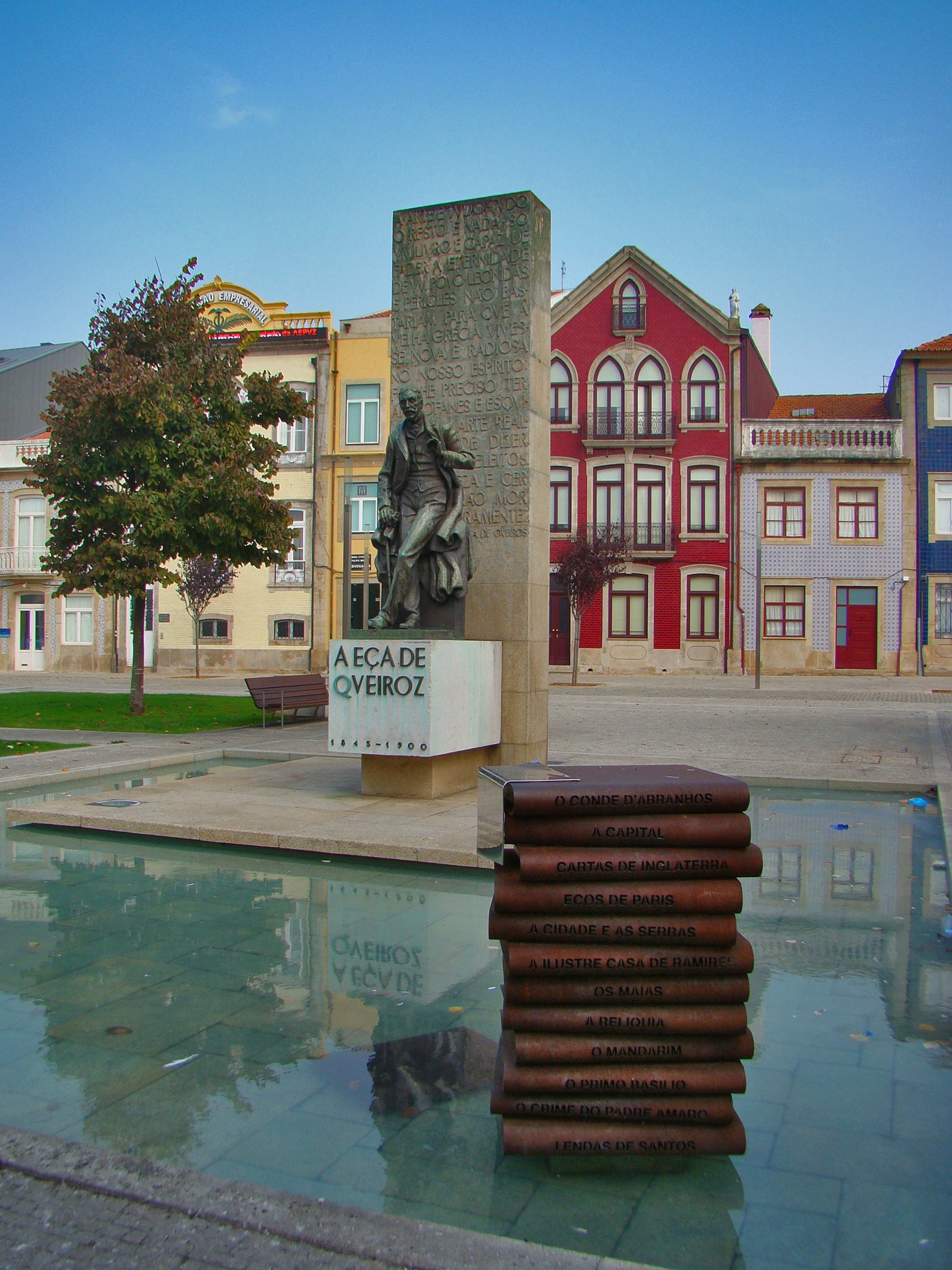 Eça de Queiroz - Póvoa de Varzim